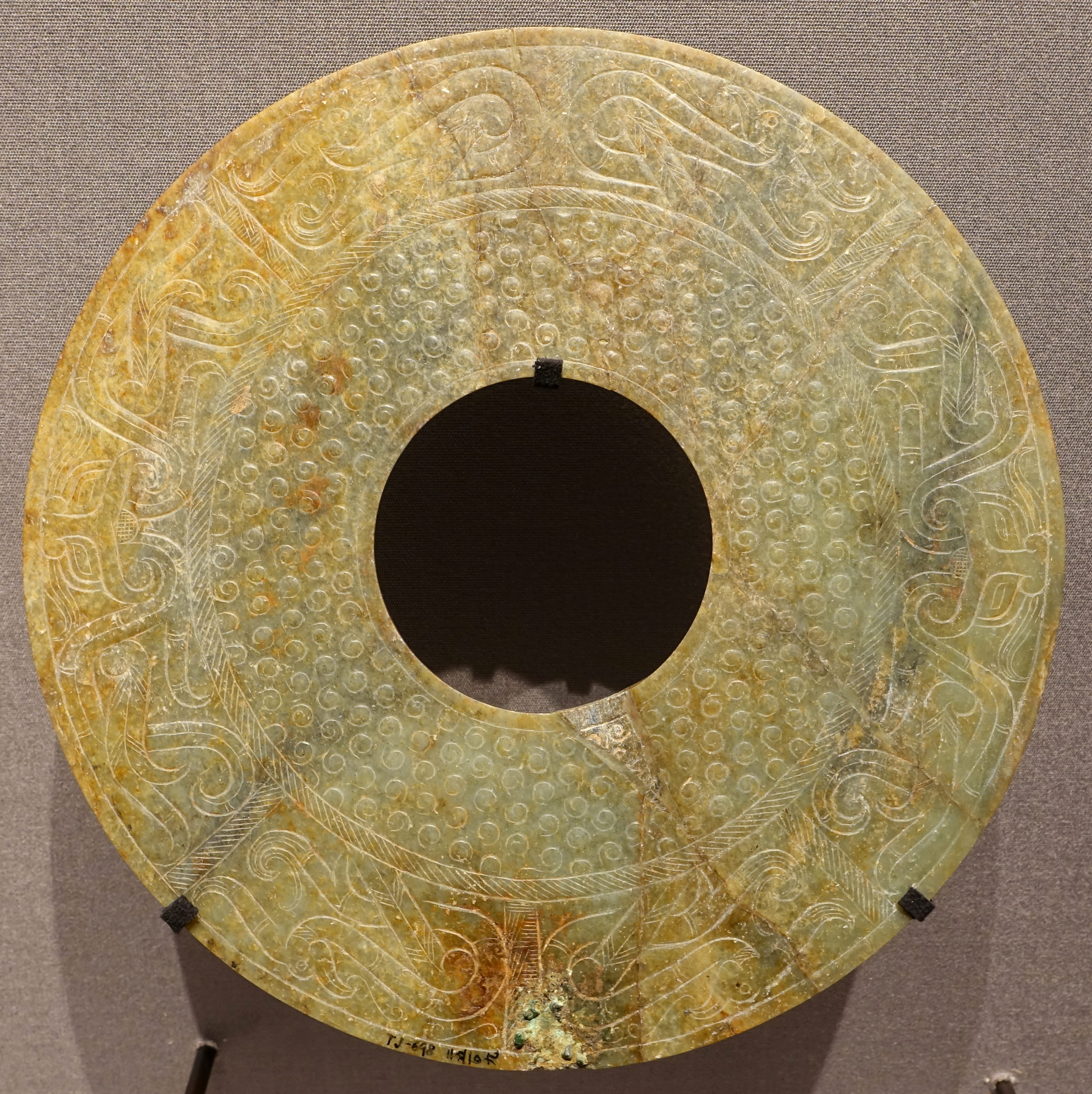 Exhibit in the Tokyo National Museum - Tokyo, Japan.